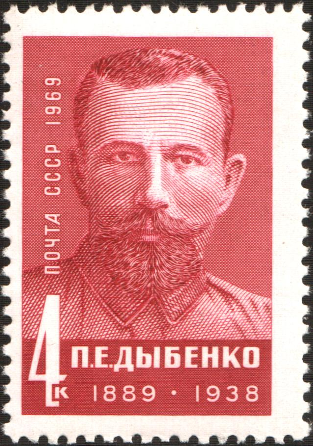 USSR stampː Pavlo Dybenko. Seriesː Figures of the Communist Party and the Soviet State